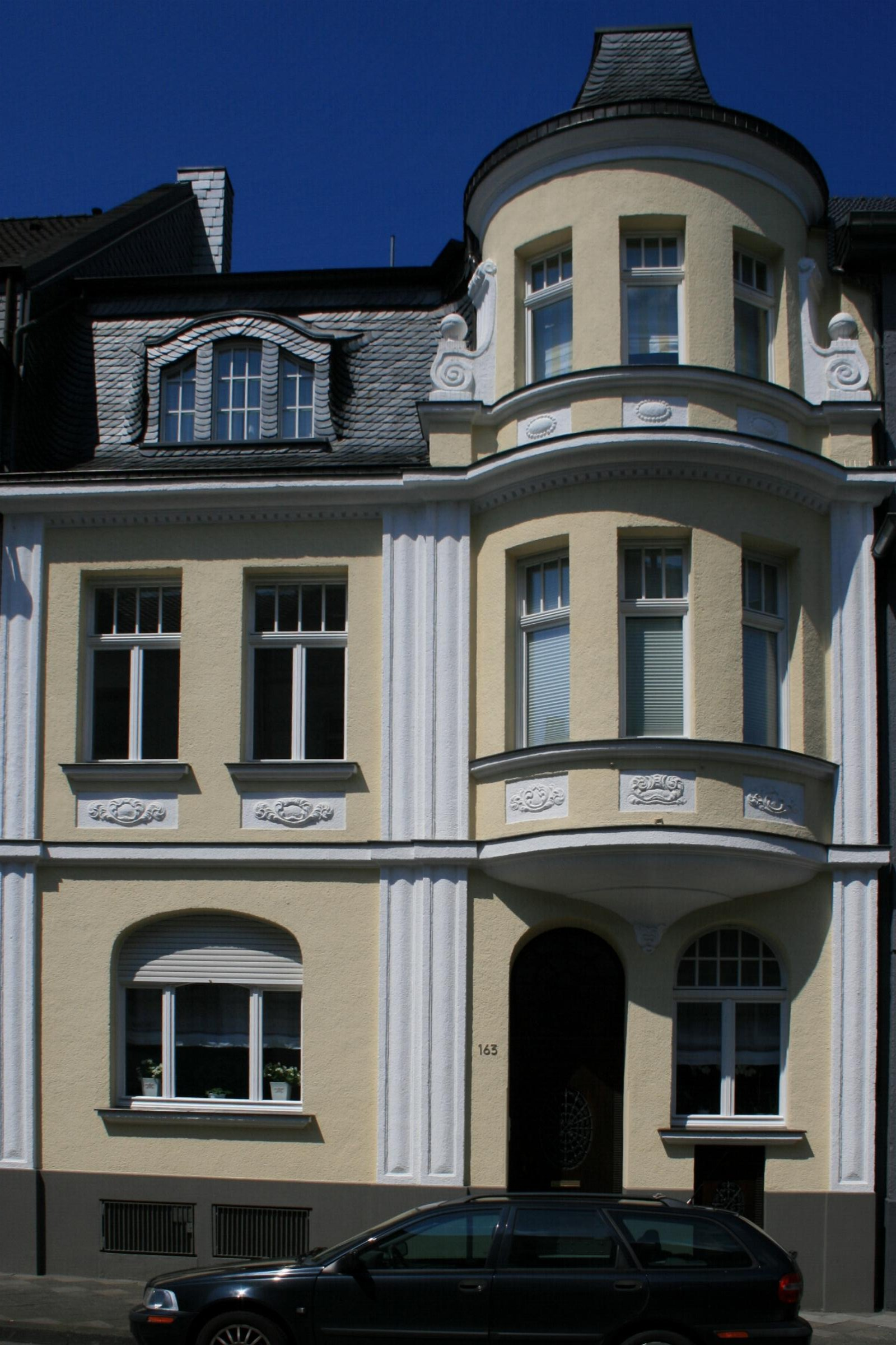 Cultural heritage monument No. K 075 in Mönchengladbach